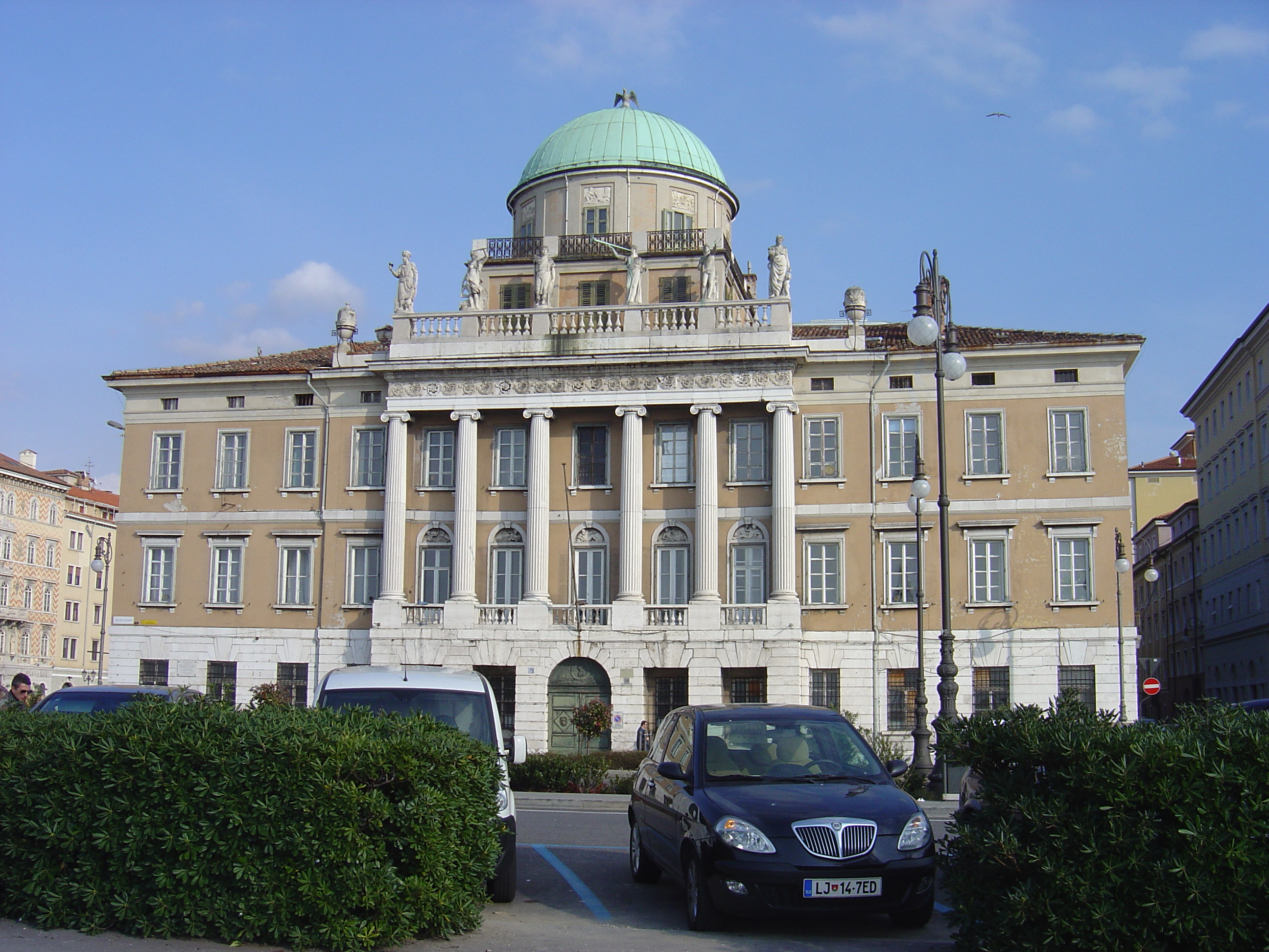 Palazzo Carciotti in Trieste, Italy